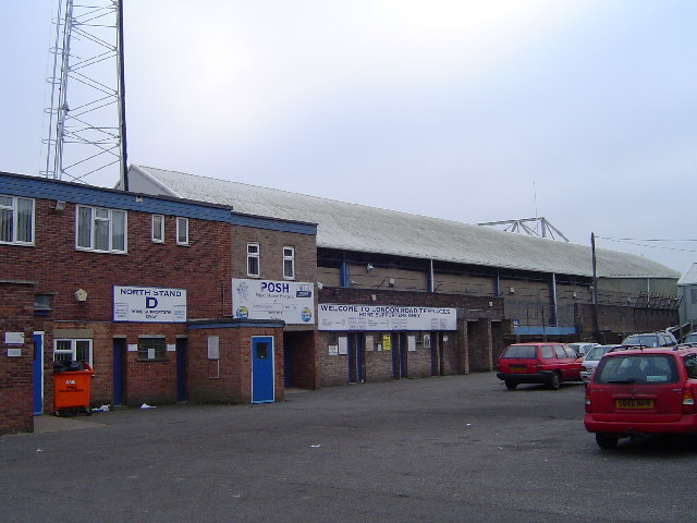 Peterborough Football Stadium. London Road western entrance.